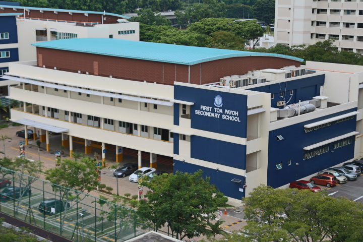 School Campus at Toa Payoh East (2004-2015)